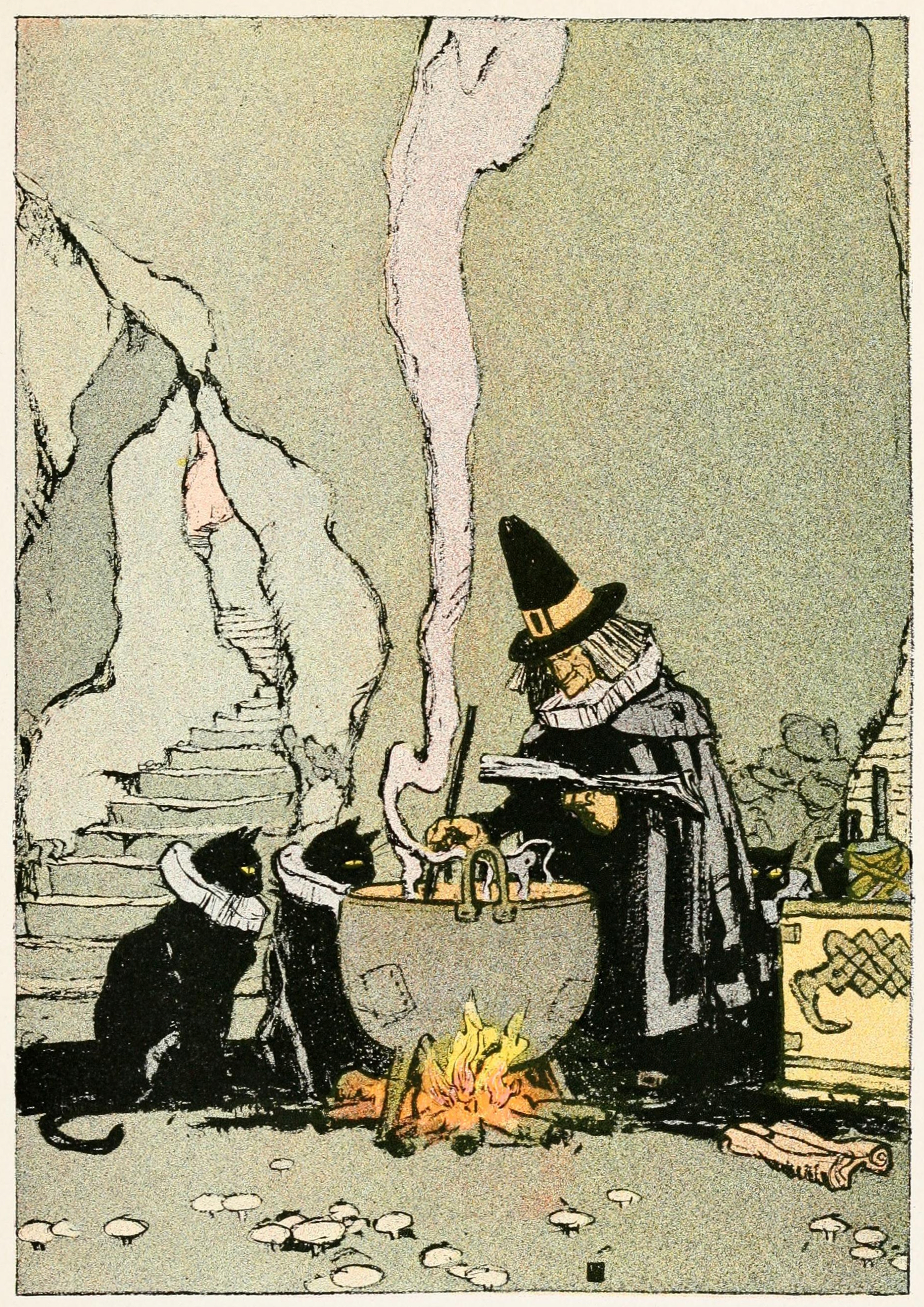 Illustrations from the play Snow White and the Seven Dwarfs.